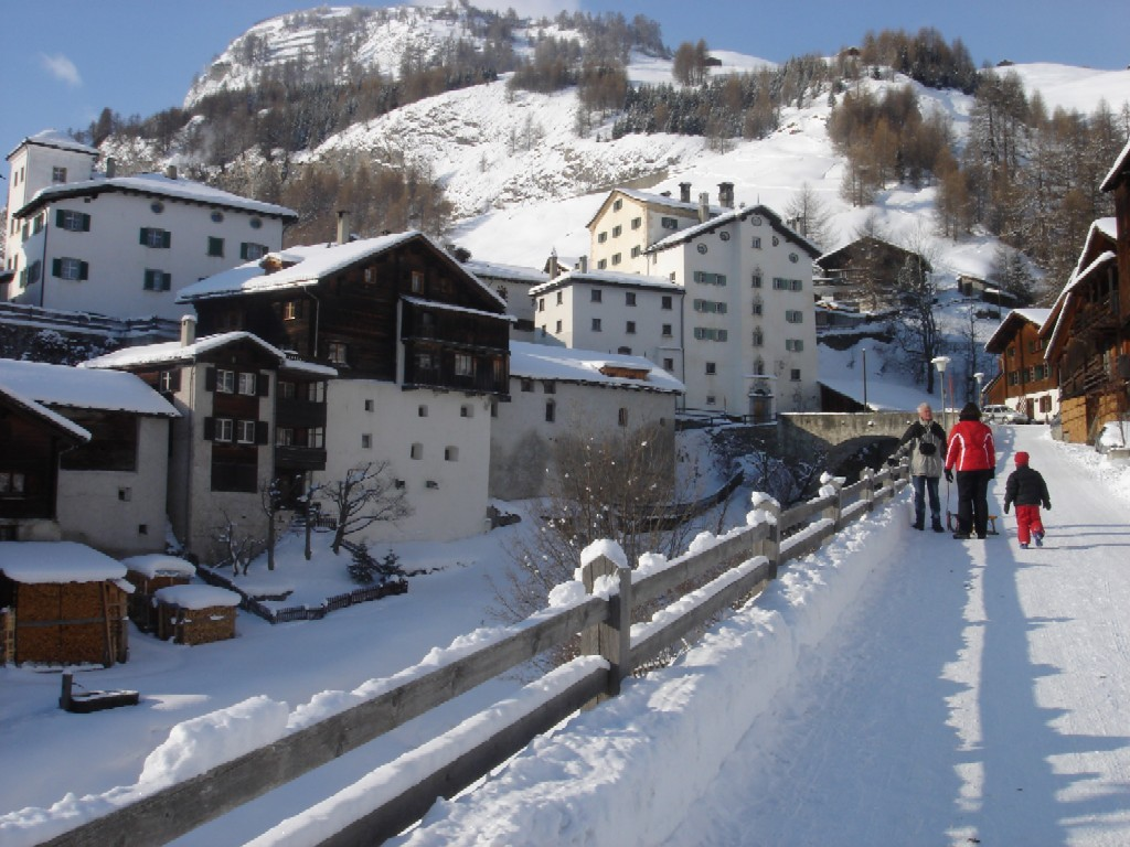 Holiday picture taken winter 2005/2006 of the main street in Splügen